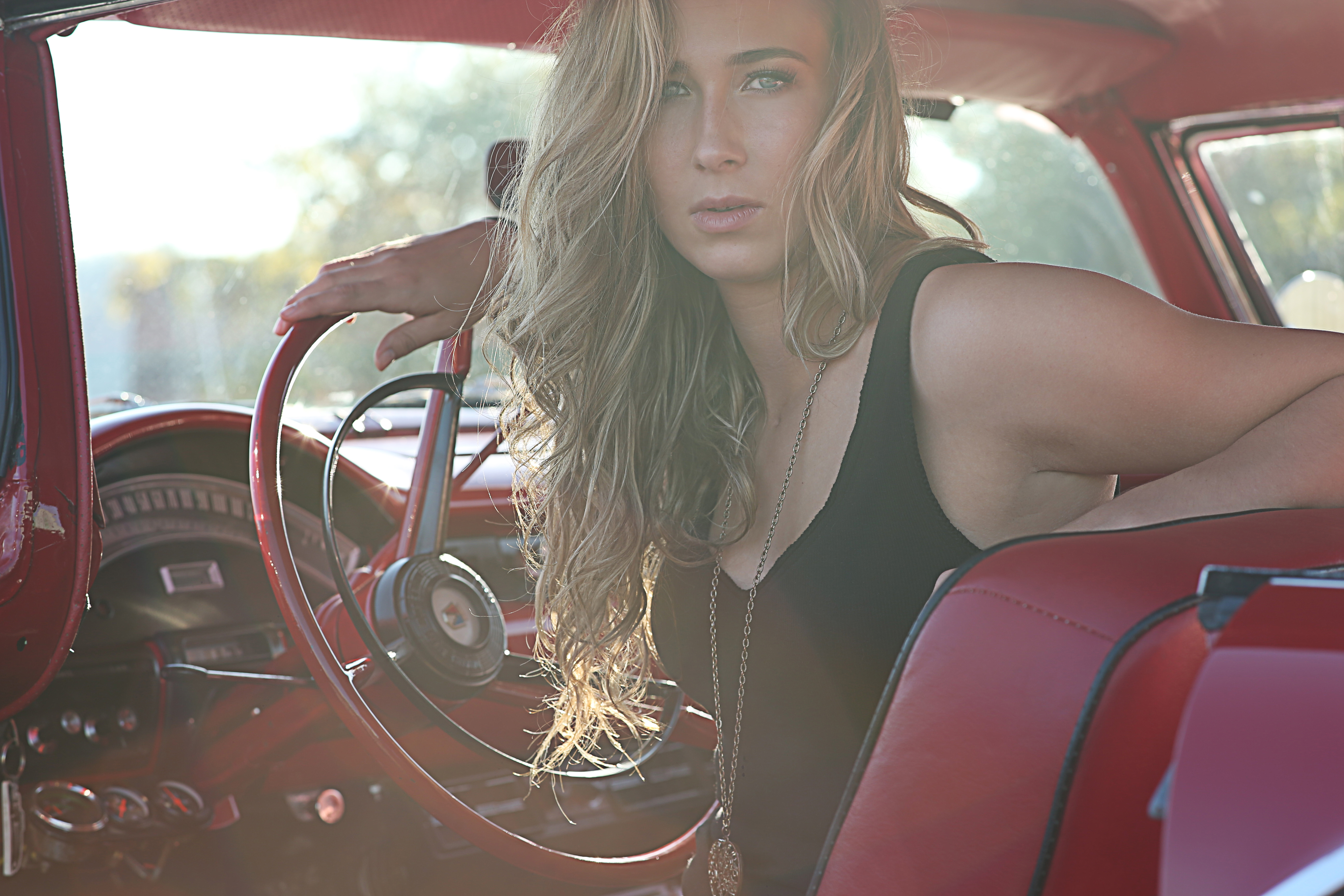 Cover photo for Shae Dupuy's 2014 single, Breakdown.